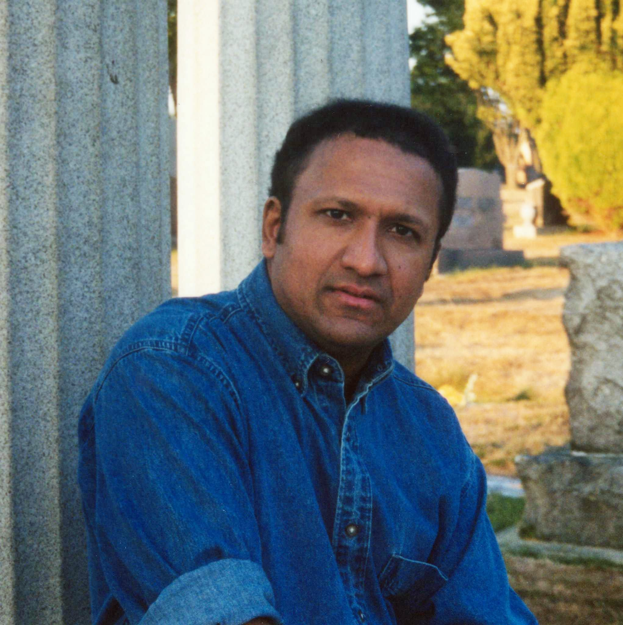 Promotional photo of S. T. Joshi (2002)